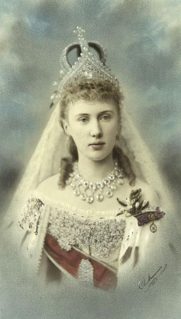 "Mavra" (Princess Elisabeth of Saxe Altenburg) in her wedding costume, April 1884 Elisabet de Saxònia-Altenburg Elisabeth von Sachsen-Altenburg Princess Elisabeth of Saxe-Altenburg Erzsébet Mavrikijevna Romanova orosz nagyhercegnő エリザヴェータ・マヴリキエヴナ Elisabeth Mavrikievna Romanova